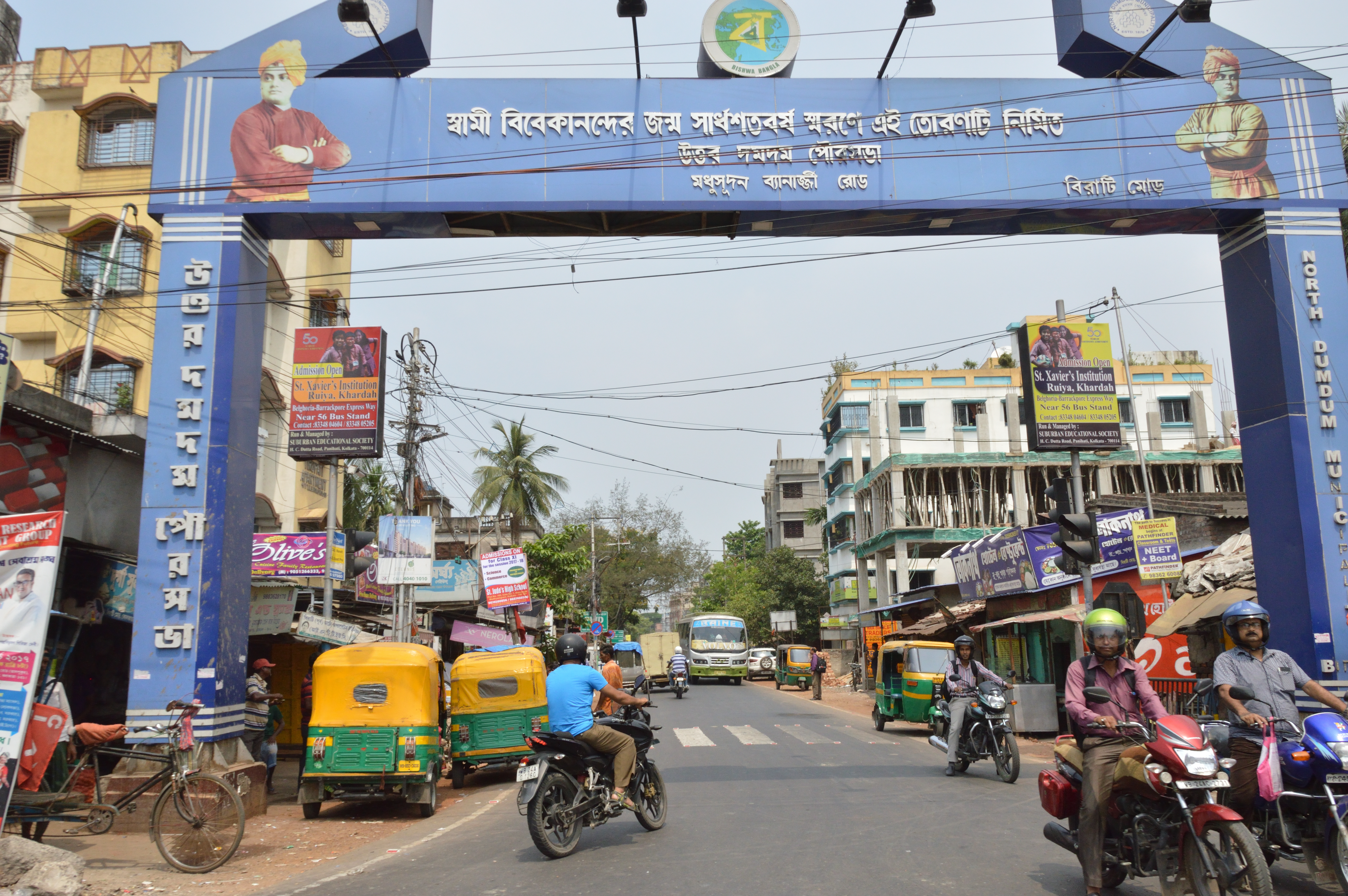 Photographed in Kolkata, West Bengal, India.